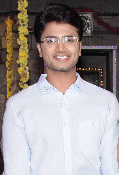 Vijay Suriya in Ishtakamya Film